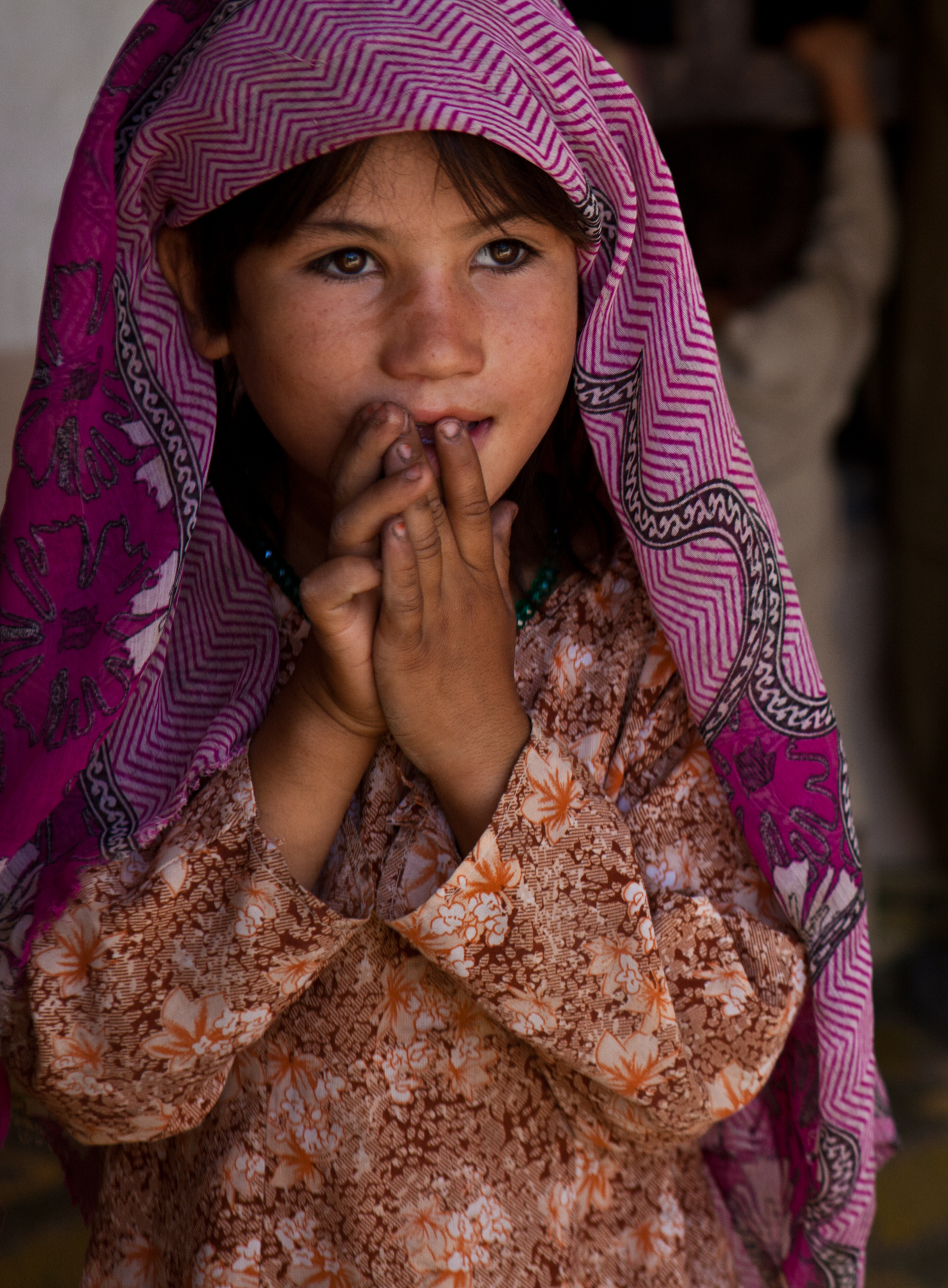 A young Afghan girl watches as Afghan National Security Forces search the compound she lives in. Children gathered around the ANSF patrol as its members investigated compounds in Eastern Marjah looking for smuggled weapons and drugs. 2nd Marine Division Photo by Cpl. Jeff Drew Date Taken:08.24.2011 Location:MARJAH, HELMAND PROVINCE, AF Related Photos